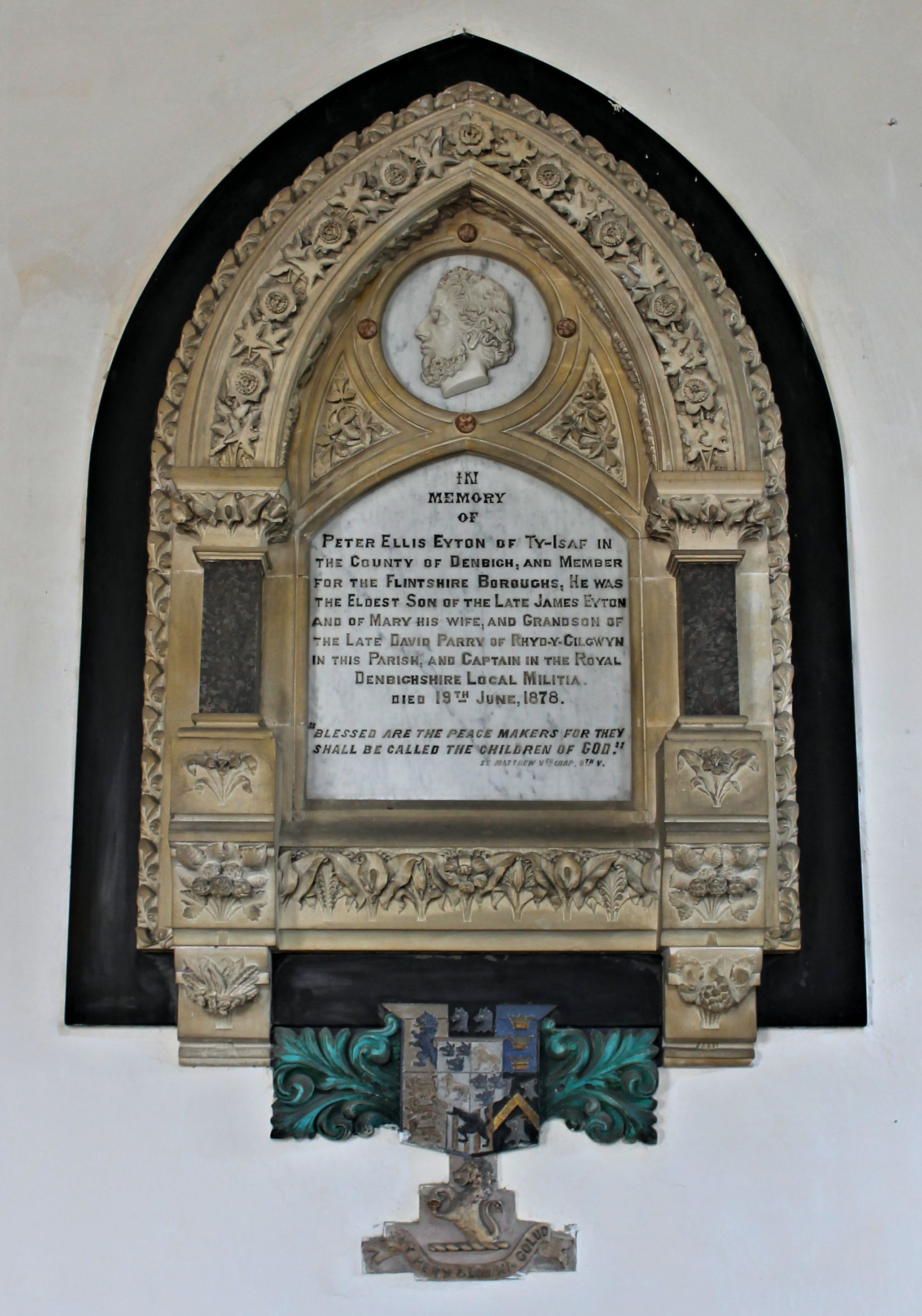 Monument to Peter Ellis Eyton at St. Saeran's church, Llanynys, Denbighshire, North Wales is a Grade 1 listed building. In 2015 a £4.5 million project came to an end, preserving this church. The motto at the bottom of the CoA is that of Humphrey Lhuyd burried in nearby church.